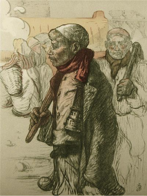 Au pays noir by Jules-Gustave Besson, lithographic print from L'Estampe moderne, vol. II, Paris, F. Champenois.